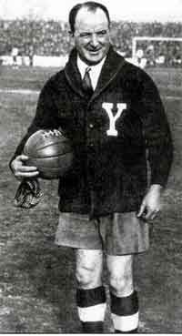 Irish sports teacher Patrick "Paddy" McCarthy, in a football camp of Argentina.